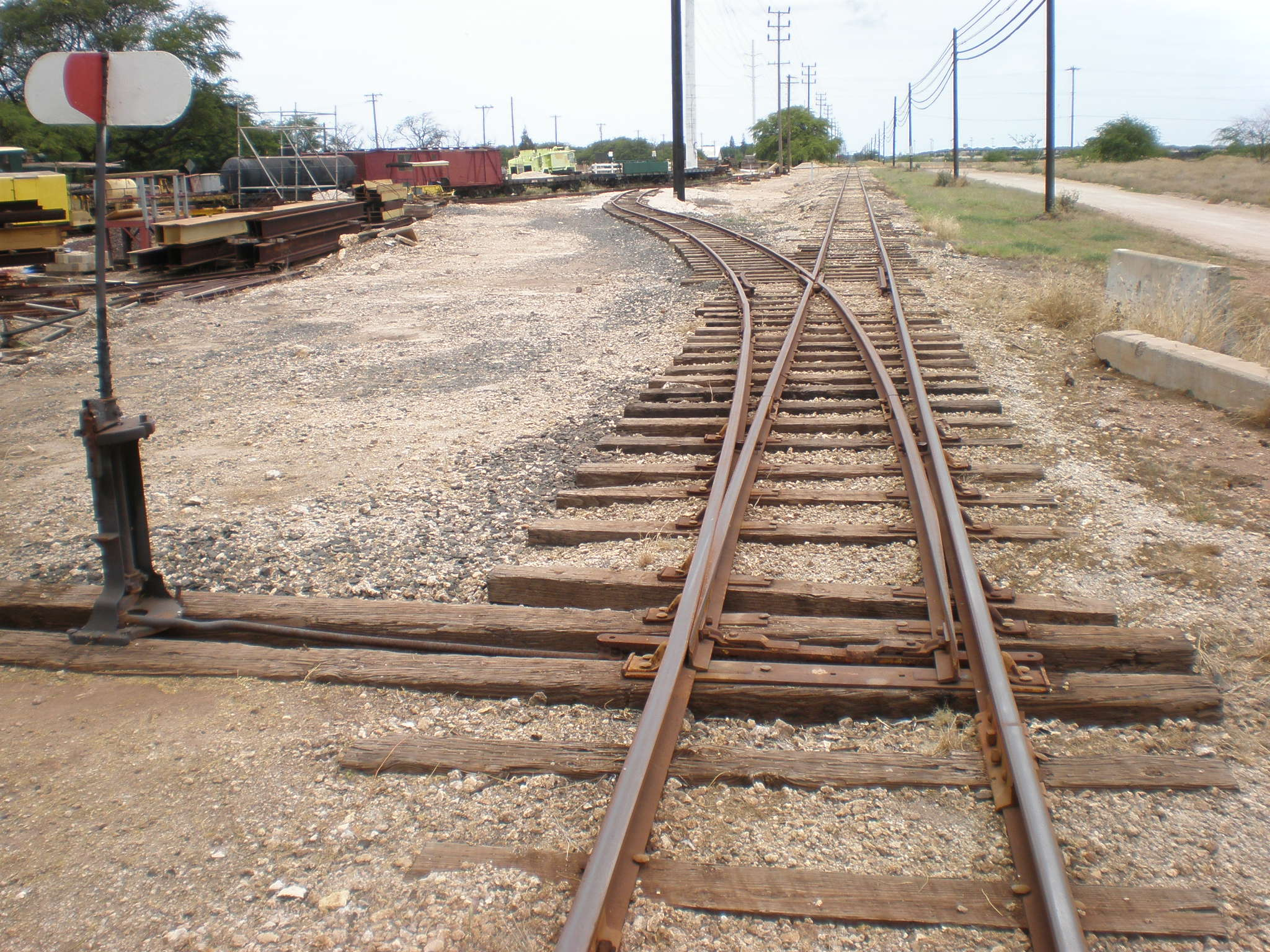 Switch stand, Oahu Railway & Land Company tracks, 91-1001 Renton Road, Ewa, Hawaii, on National Register of Historic Places